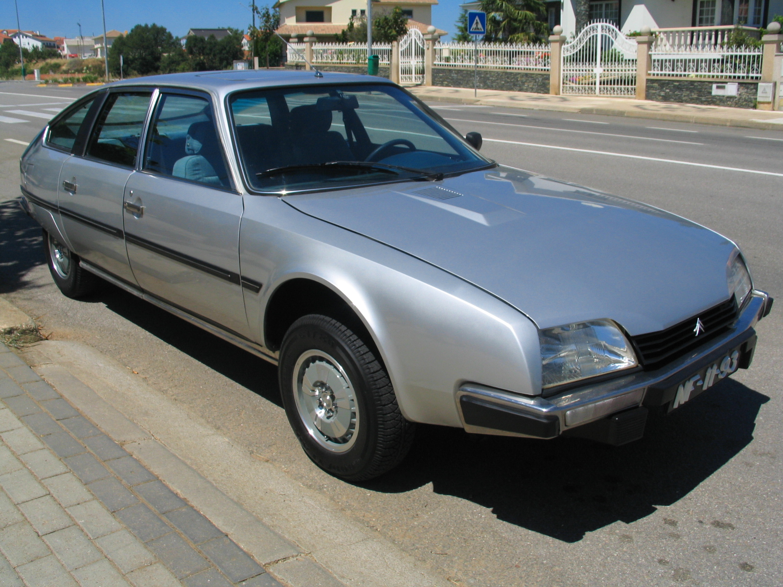 Citro�n CX